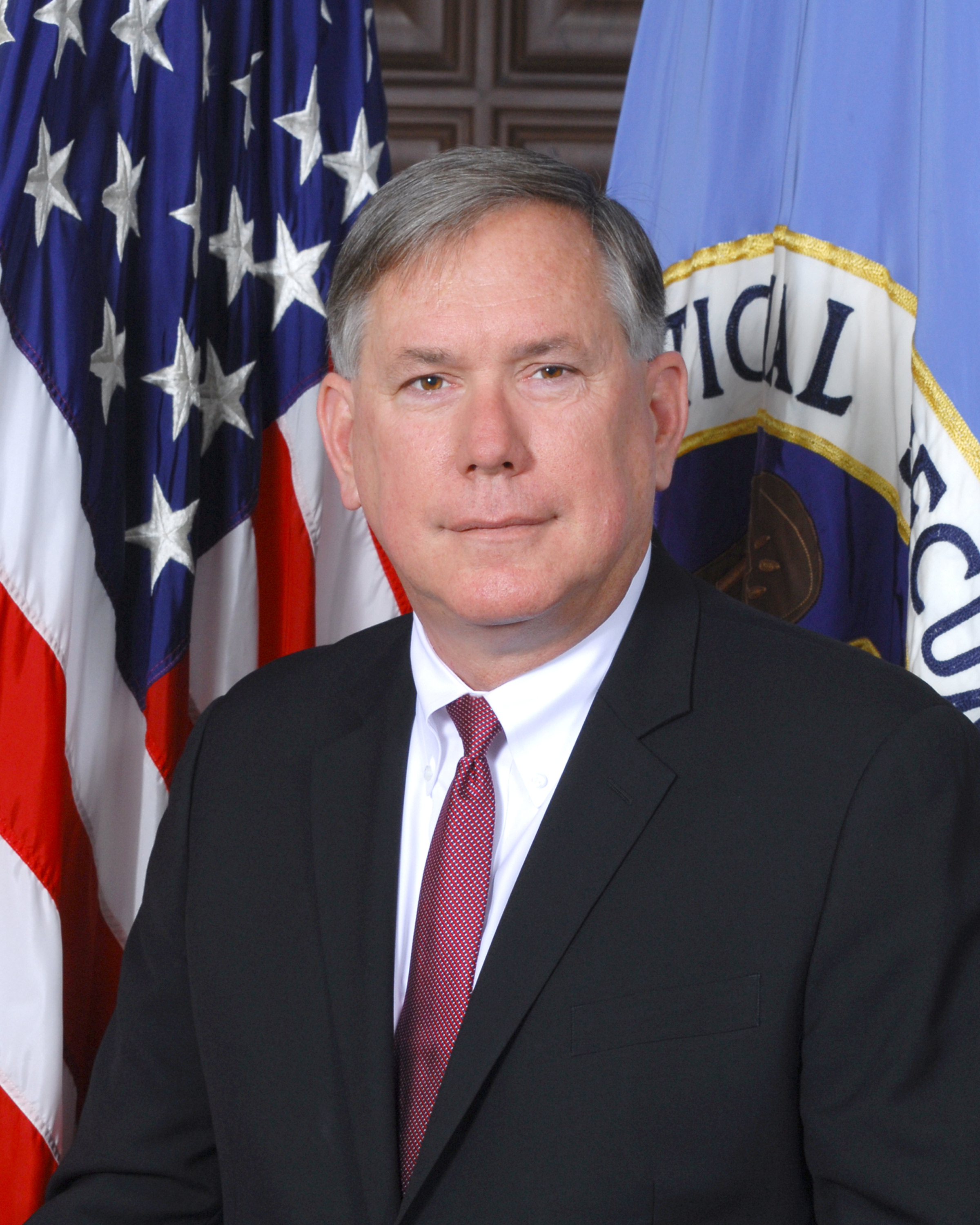 Current Deputy Director of the NSA